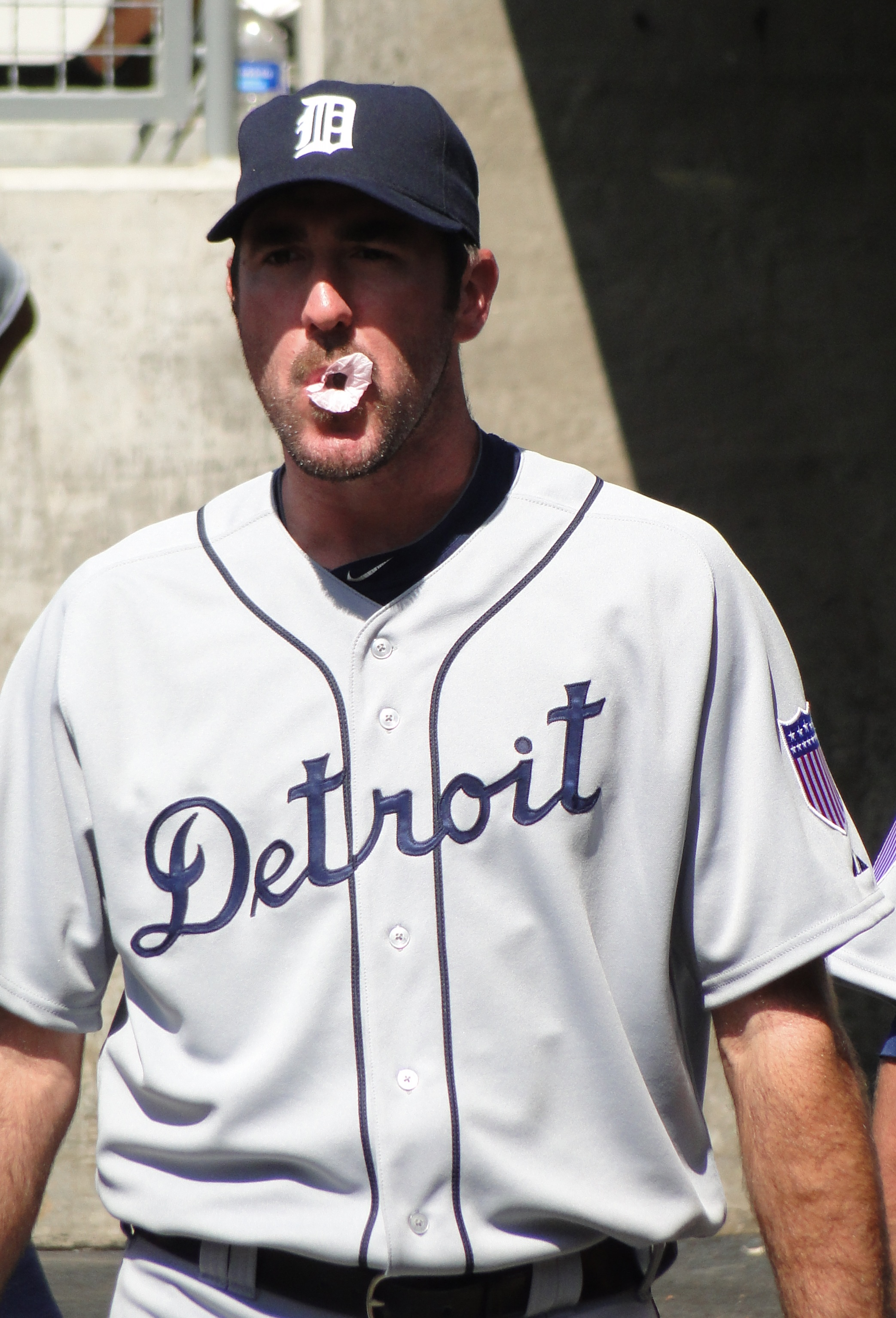 Justin Verlander with burst bubble at Dodger Stadium.